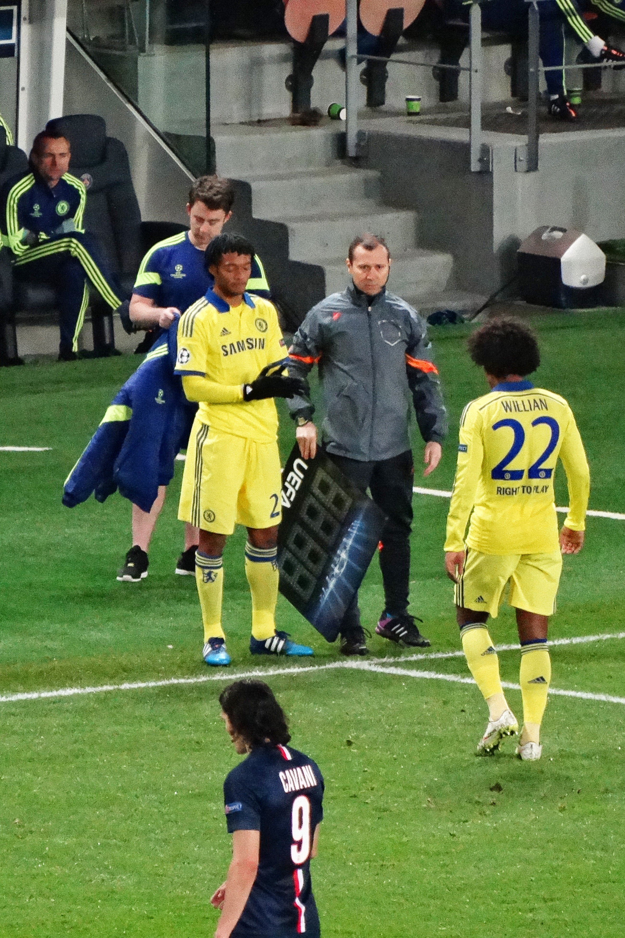 PSG 1 Chelsea 1 Champions League round of 16 1st leg